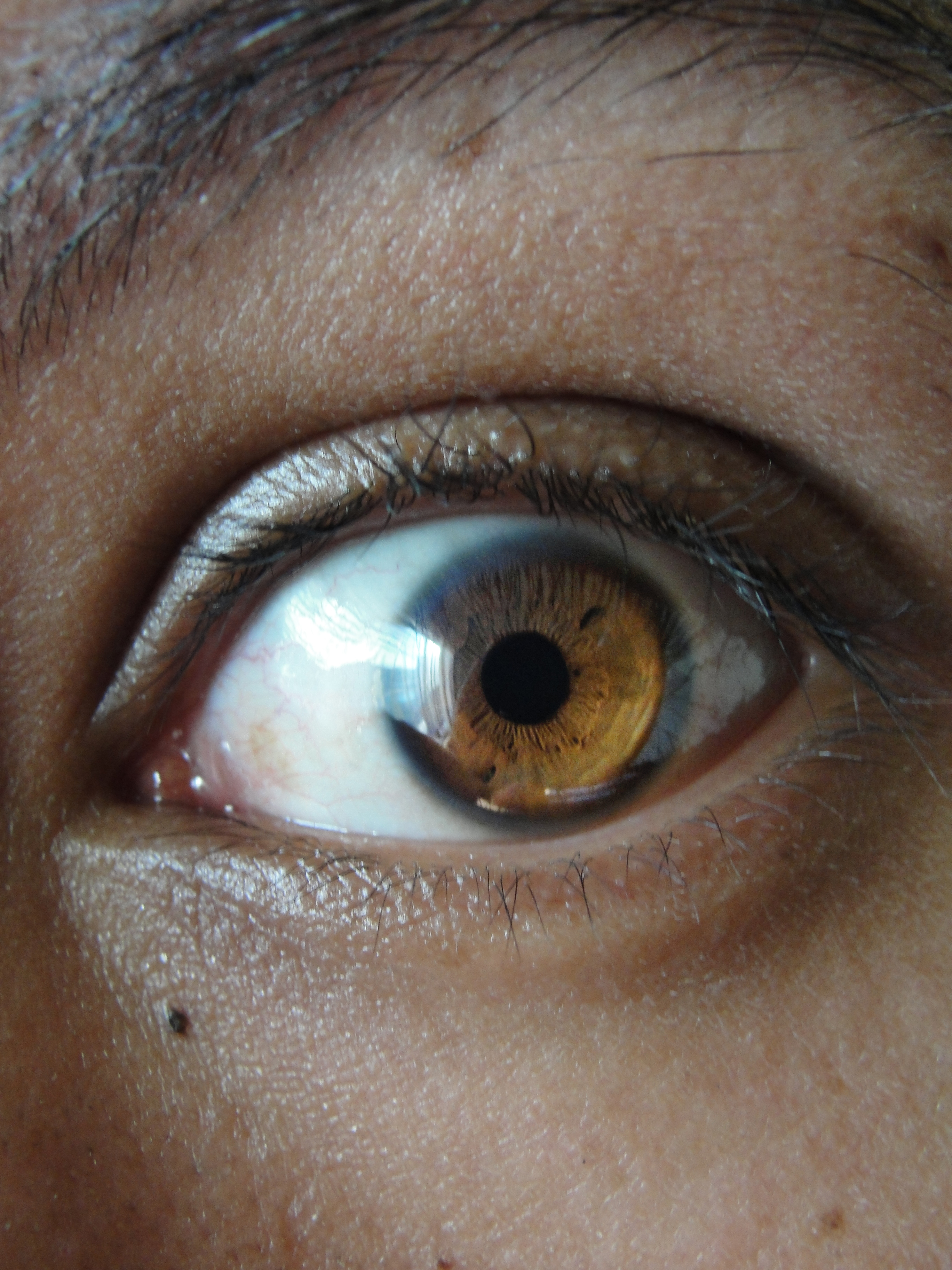 Light Brown eye